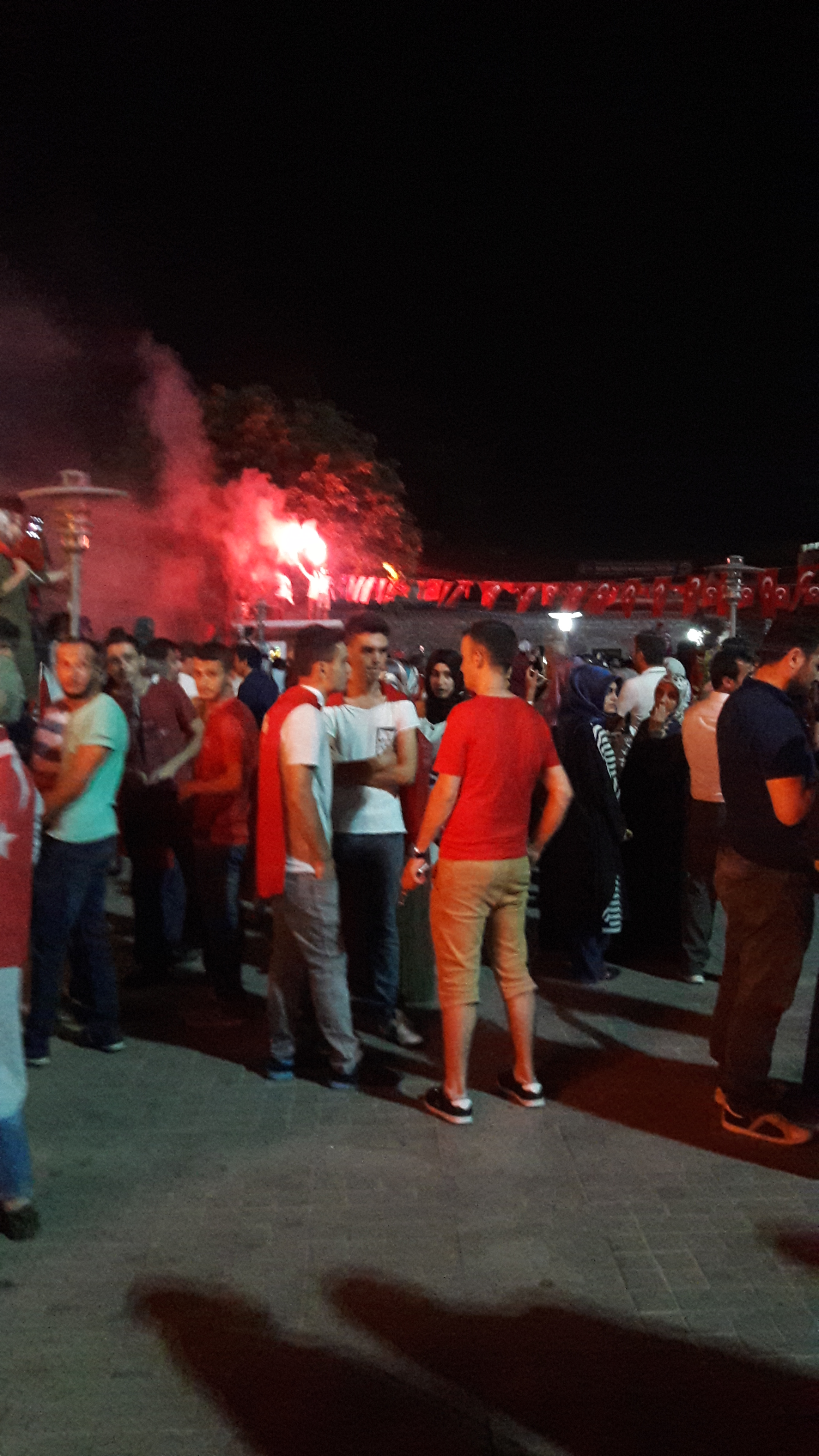 2016 Turkish coup d'état attempt democracy protests in, 16 June 2016.